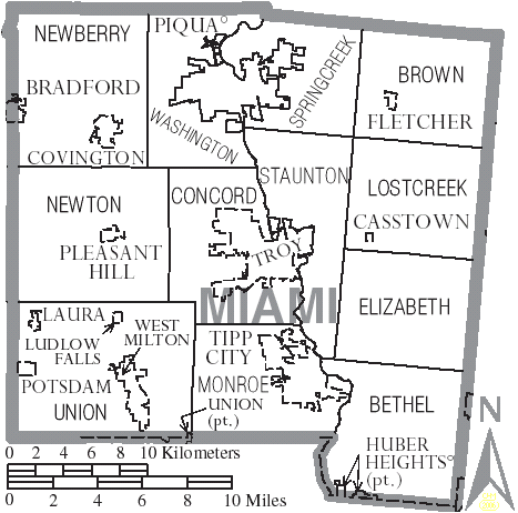 Map of Miami County, Ohio, United States with township and municipal boundaries